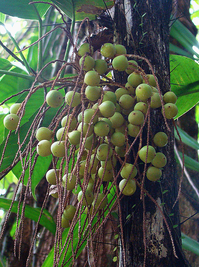 The Coyol or Macaw Palm is widespread and widely planted in the Neotropics. Photo from an estate in Nicaragua. In context at